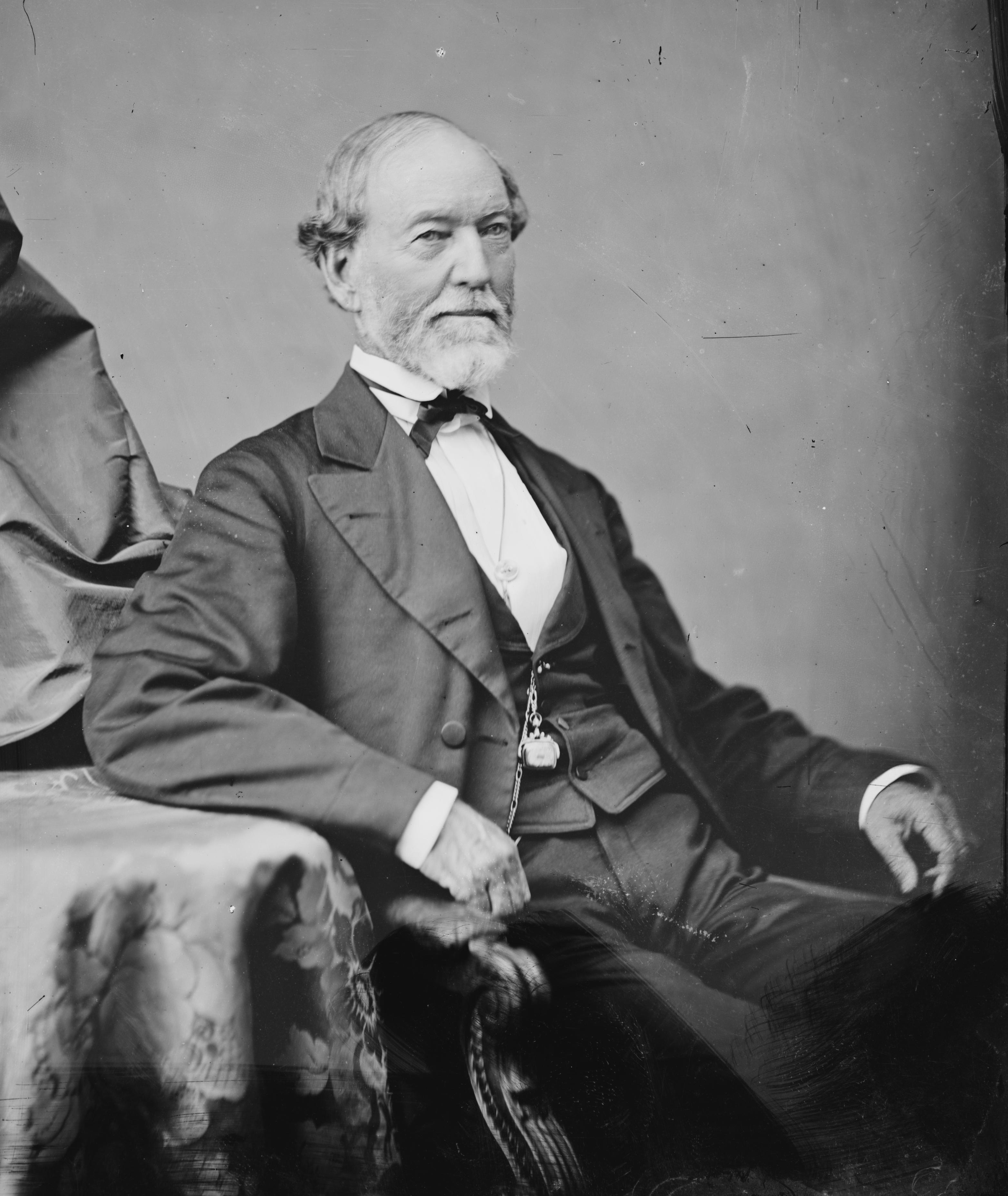 James W. Flanagan. Library of Congress description: "Hon. Jas. Winright Flanagan of Texas"